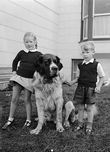 Teitl Cymraeg/Welsh title: Ci St Bernard Gwesty'r Belle Vue, Aberystwyth. Ffotograffydd/Photographer: Geoff Charles (1909-2002) Dyddiad/Date: 05/12/1952 Cyfrwng/Medium: Negydd ffilm / Film negative Cyfeiriad/Reference: (gch03440) Rhif cofnod / Record no.: 3368752 Rhagor o wybodaeth am gasgliad Geoff Charles yn Llyfrgell Genedlaethol Cymru More information about the Geoff Charles Collection at the National Library of Wales Mae ffotograffau Geoff Charles hefyd yn rhan o Broject Europeana Libraries Geoff Charles' photographs also form part of the Europeana Libraries Project